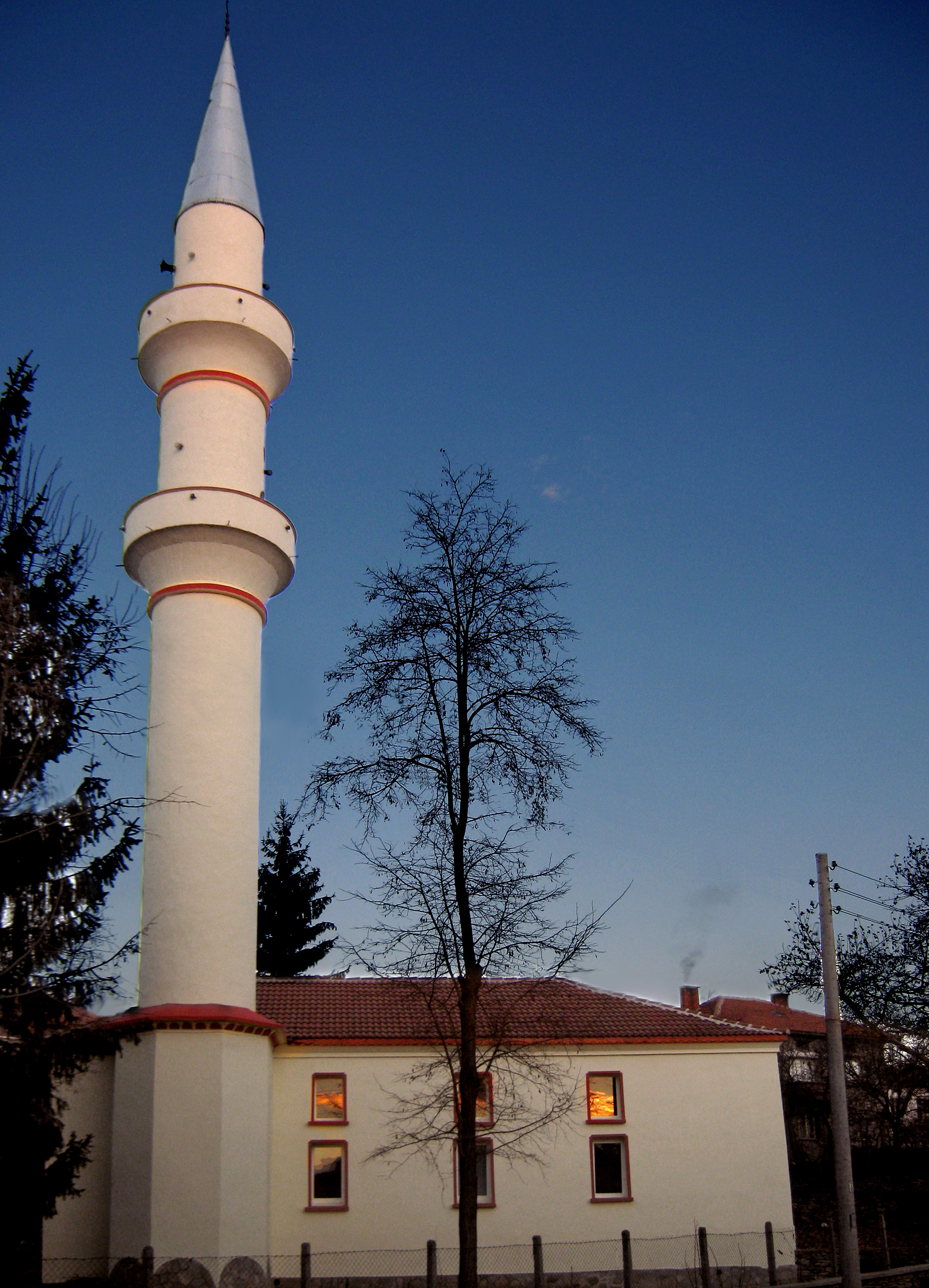 View to the mosque after the restoration in fall 2012.